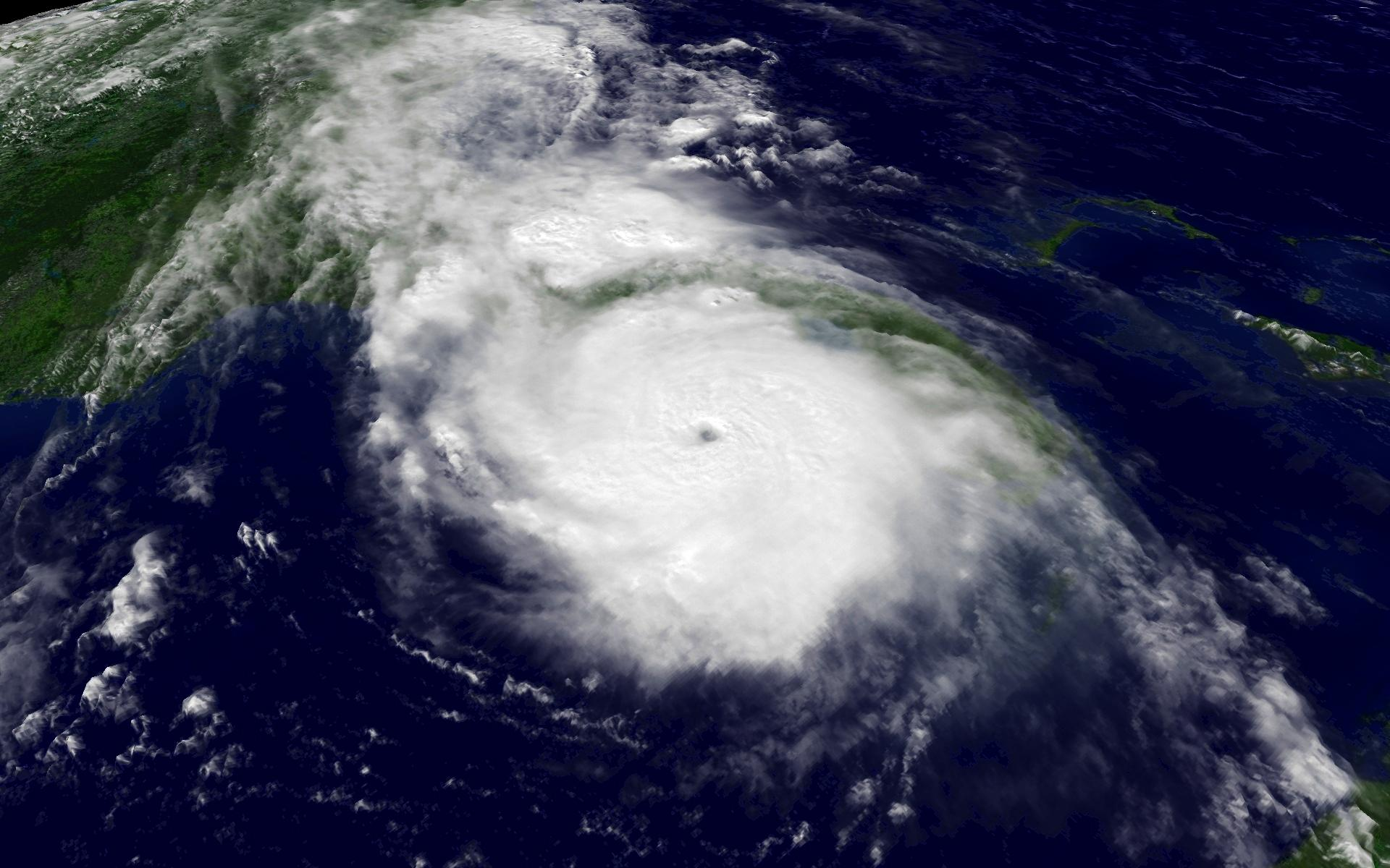 Hurricane Charley regional imagery, August 13 at 1945Z.